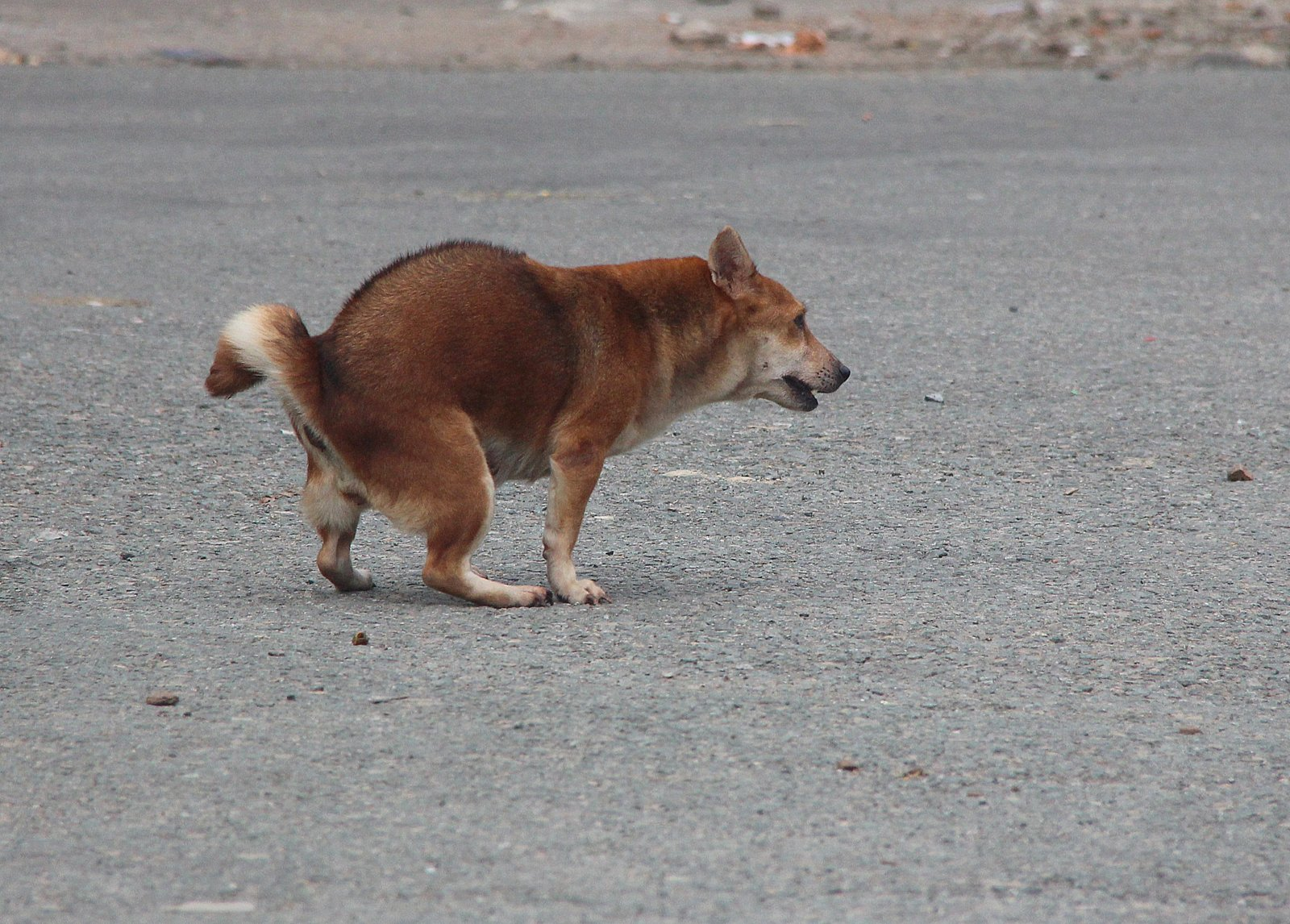 Defecating dog in Vietnam